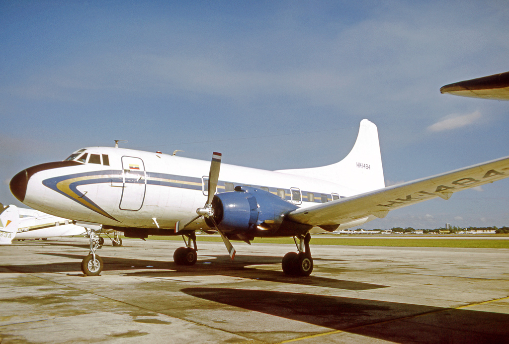 Martin 2-0-2 HK-1484 of Aeroproveedora (Colombia) at Fort Lauderdale International in 1973